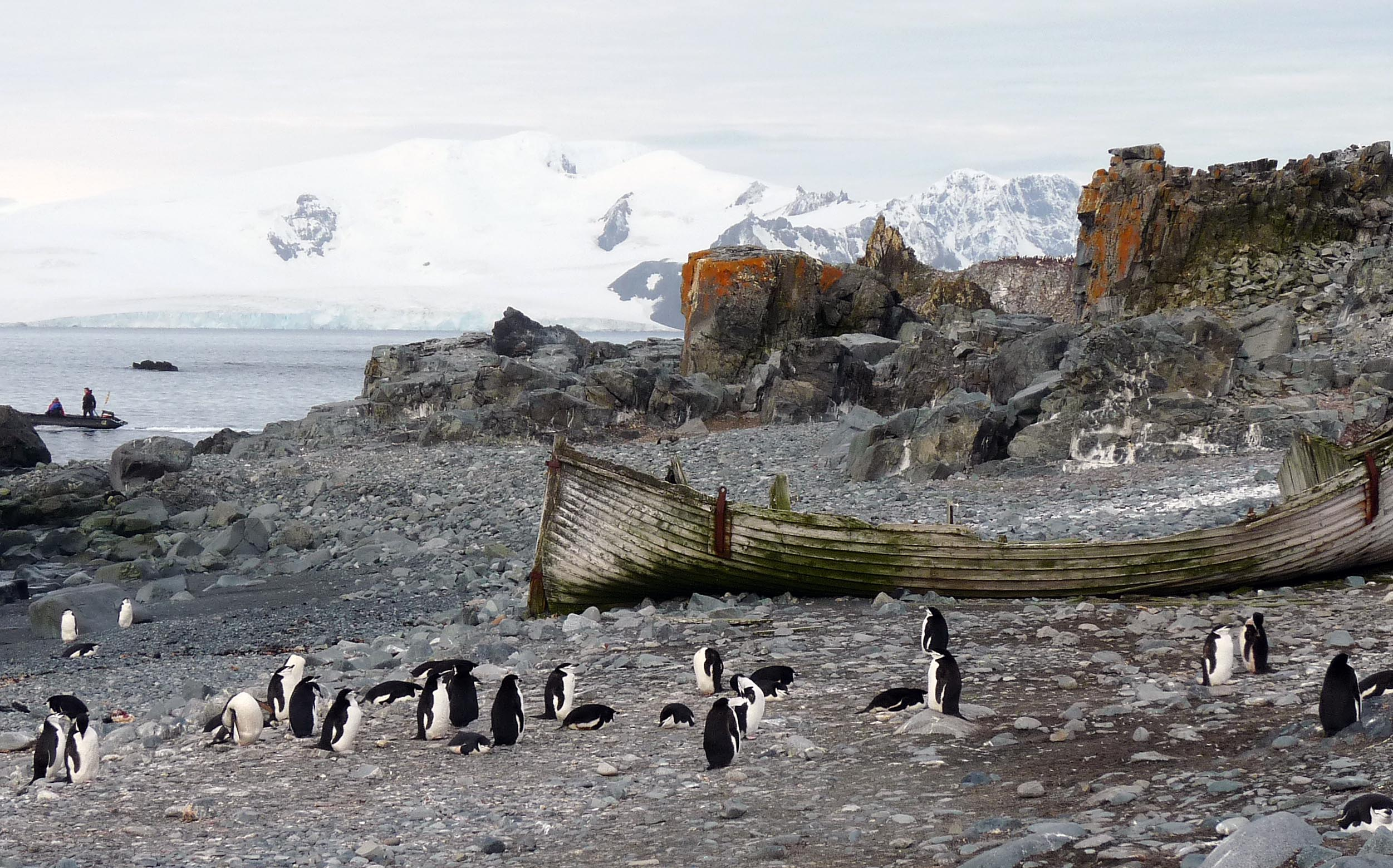 Whaler & Chinstraps